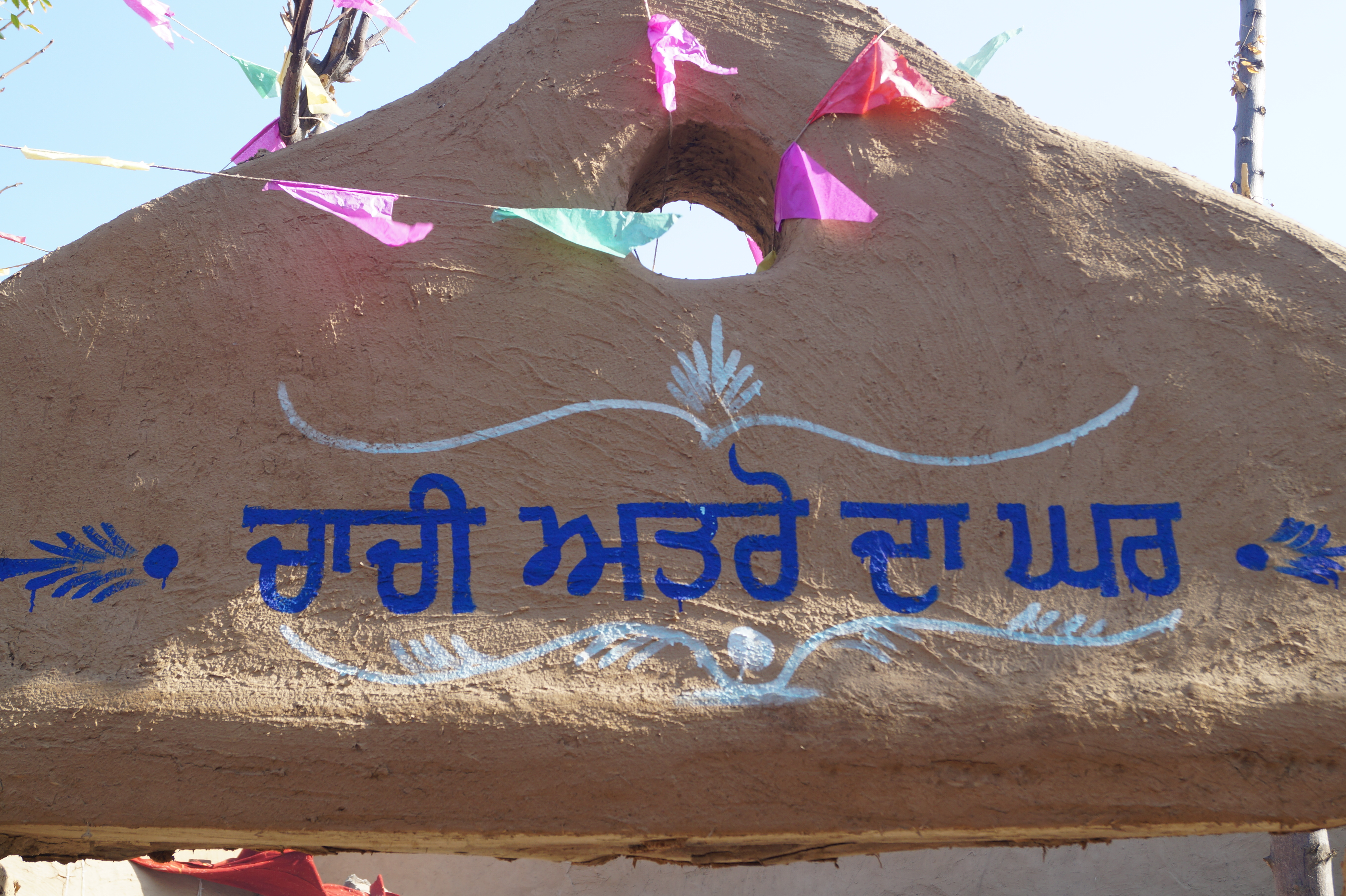 Chachi atro da ghar at virasti mela, bathinda